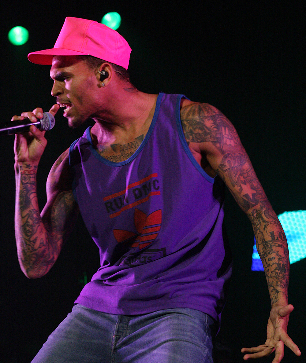 Chris Brown Performs at Supafest 3 Sydney, Australia 2012.